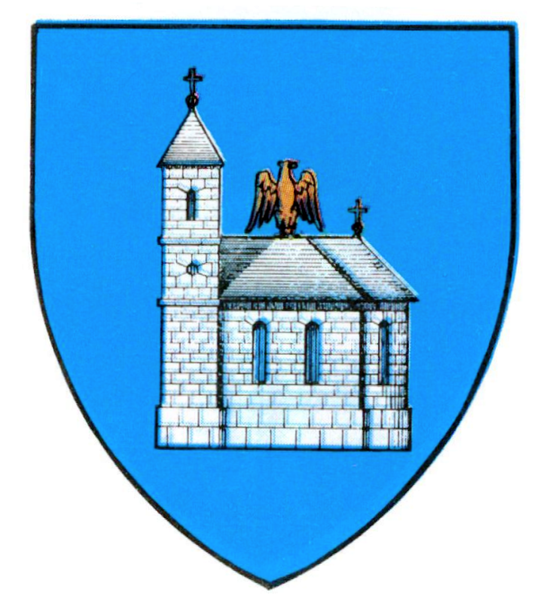 Interwar coat of arms of Buzău County, Kingdom of Romania.